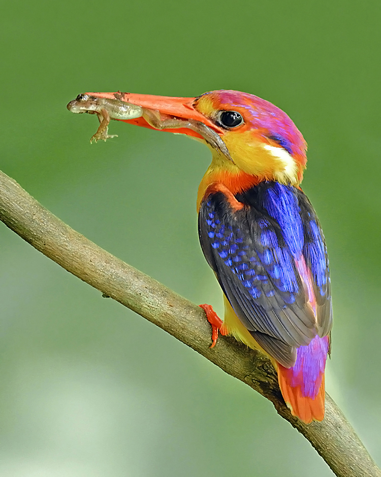 Oriental dwarf kingfisher (Ceyx erithaca) with frog kill, from Mangaon, Raigad, Maharashtra, India